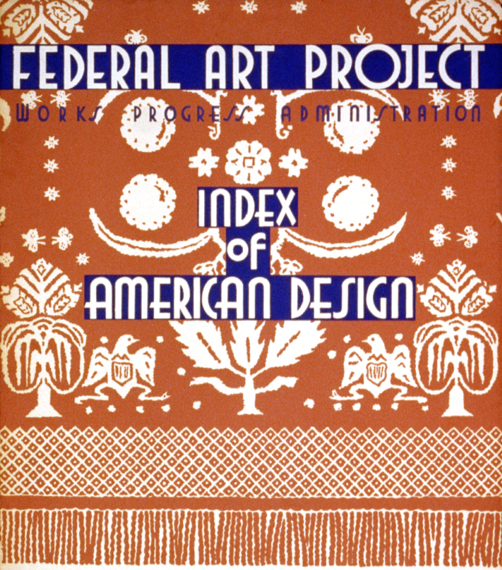 Detail of poster for a Federal Art Project exhibition of the Index of American Design, showing woven fabric.